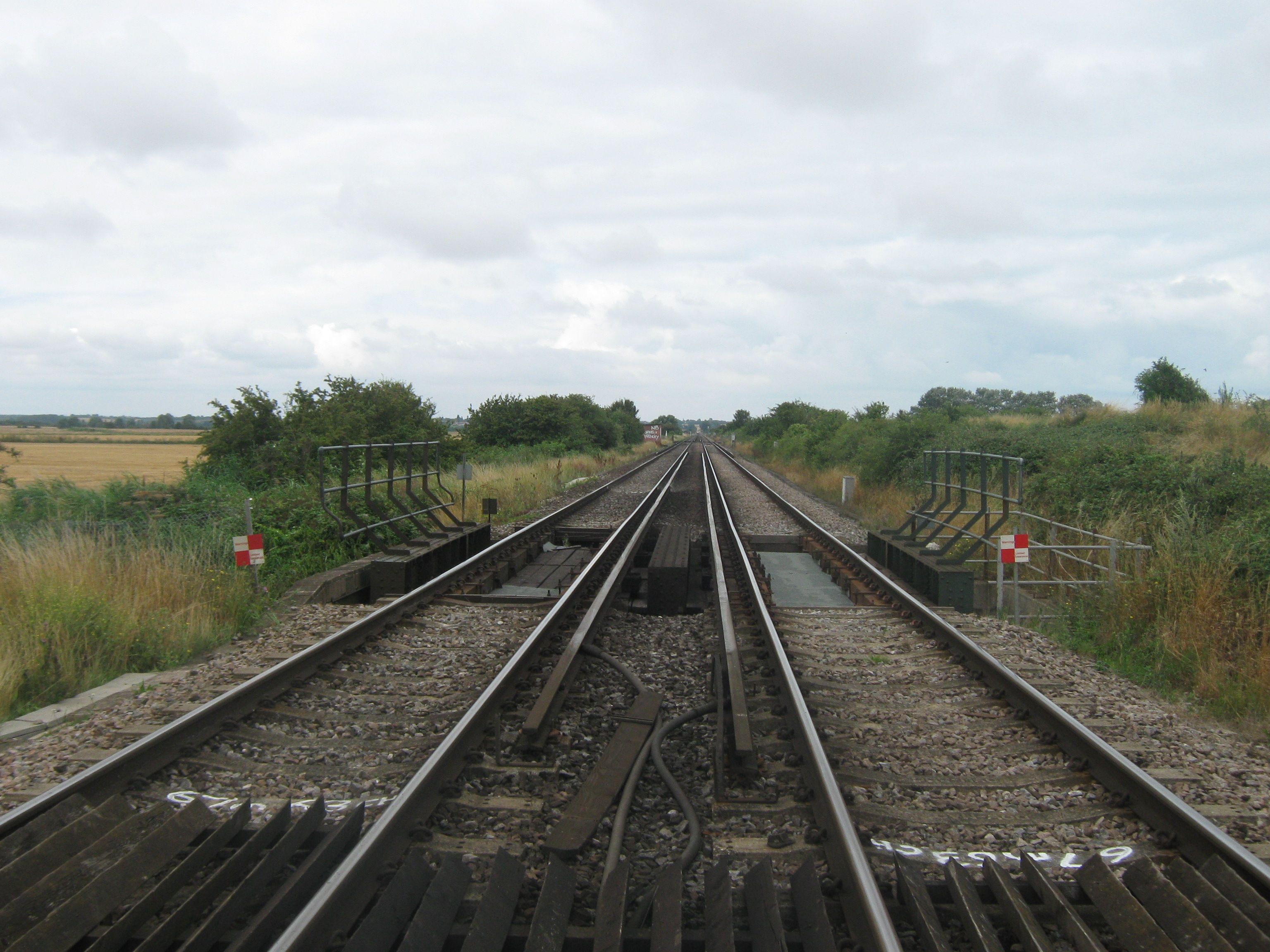 Looking west from a level crossing with a farm track, the Chatham Main Line crosses the River Wantsum about 1.6 miles east by south of Reculver. The rear of a westbound train, which would have passed the viewpoint shortly before, is visible in the far distance.